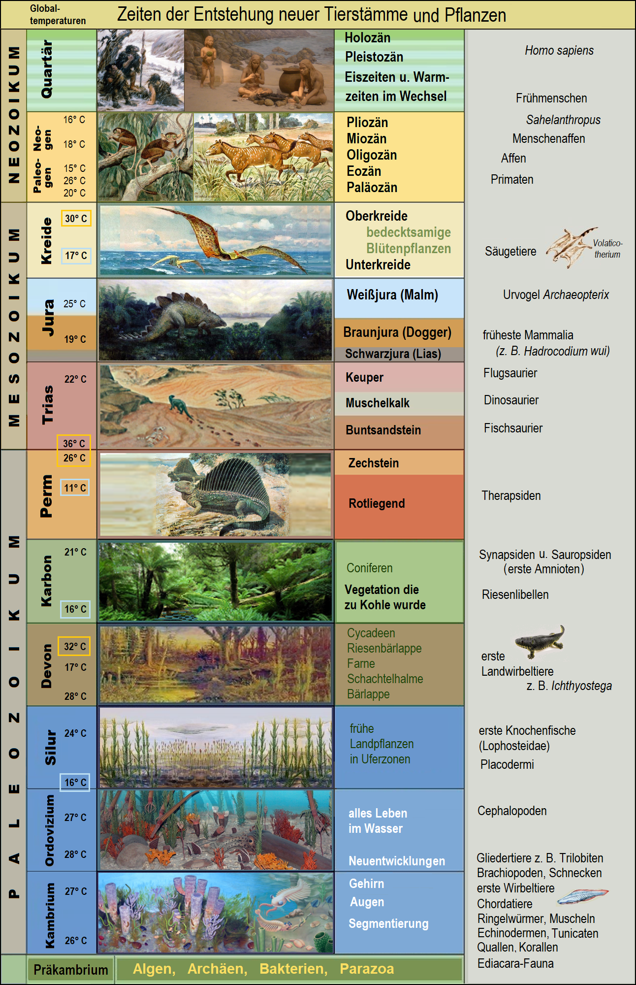 Illustrated geological column.